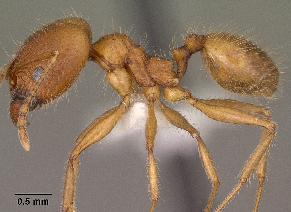 Profile view of ant Pheidole hyatti specimen casent0102880.